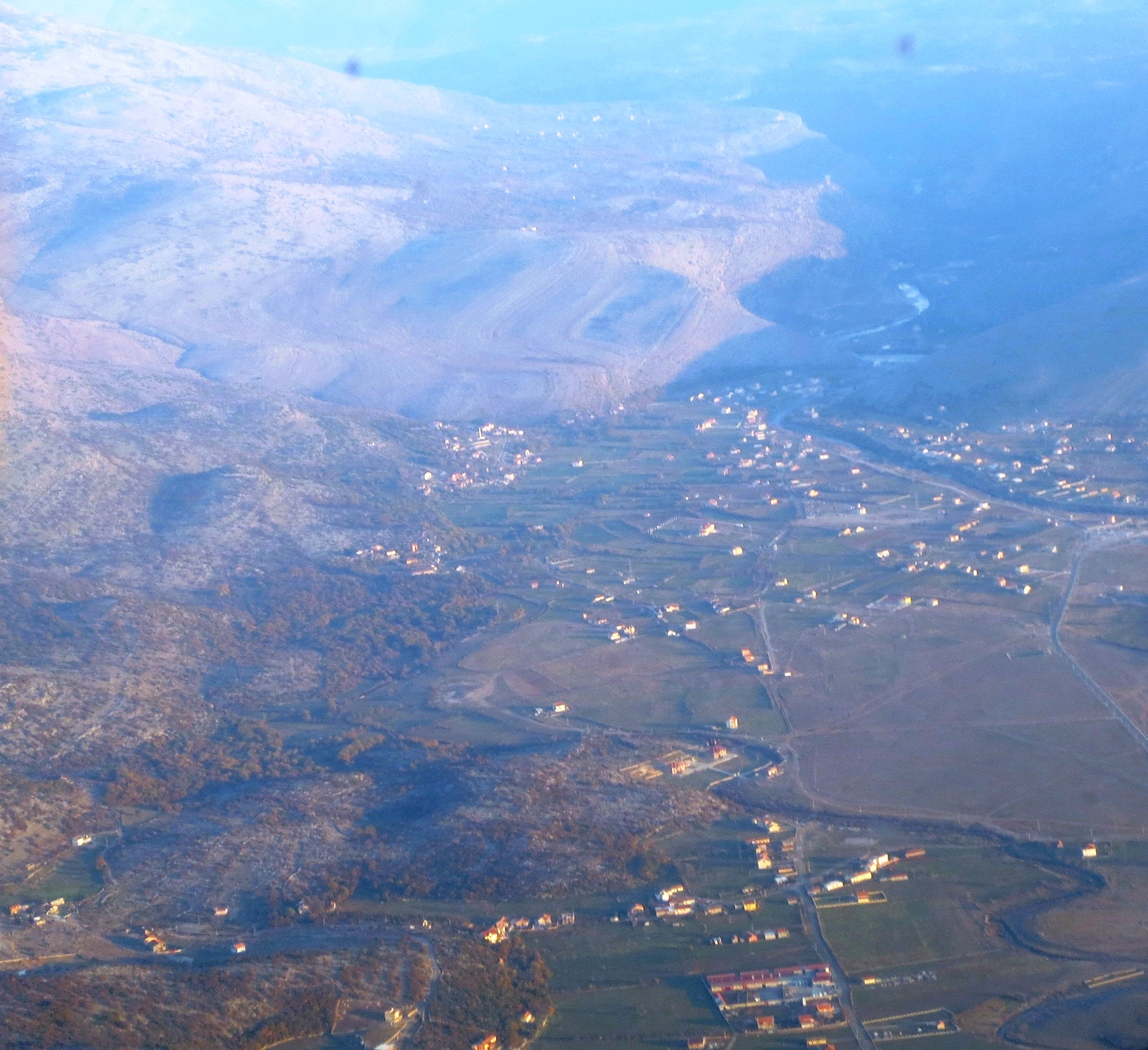 The village of Dinosa, just immediately northeast of Podgorica city, Montenegro